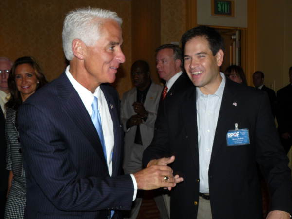 Accompanying note: "Gov. Charlie Crist brushes past his rival in the 2010 Republican primary for the U.S. Senate, former House Speaker Marco Rubio, R-West Miami, who waited about a half-hour at the door of the State GOP quarterly meeting in Kissimmee, Aug. 22, hoping to ask the governor when they might get together for a debate."